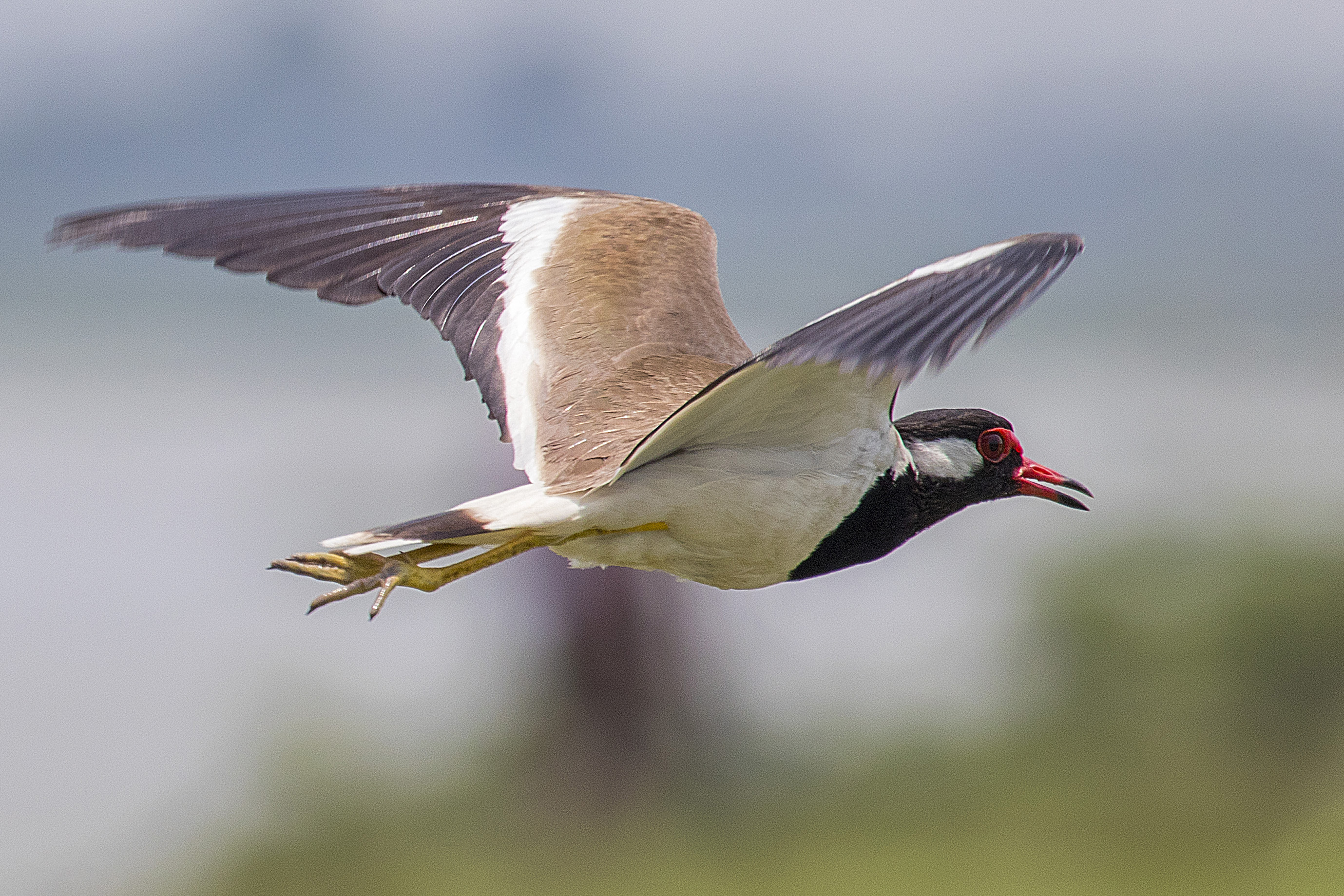 The red-wattled lapwing (Vanellus indicus) is a lapwing or large plover, a wader in the family Charadriidae. It has characteristic loud alarm calls which are variously rendered as did he do it or pity to do it[2] leading to colloquial names like the did-he-do-it bird.[3] Usually seen in pairs or small groups not far from water but may form large flocks in the non-breeding season (winter).[4]